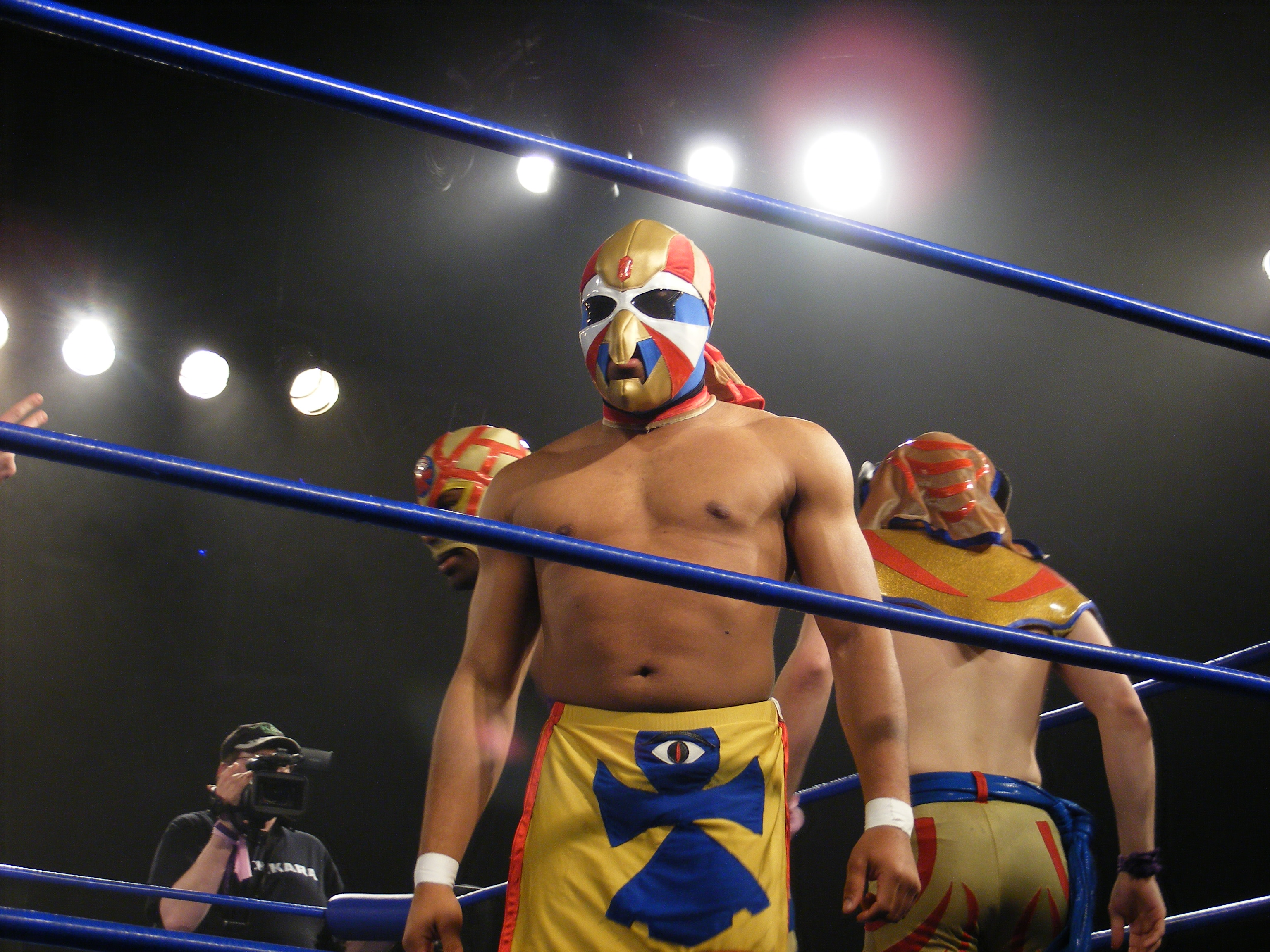 Professional wrestler Hieracon at Chikara King of Trios 2011.